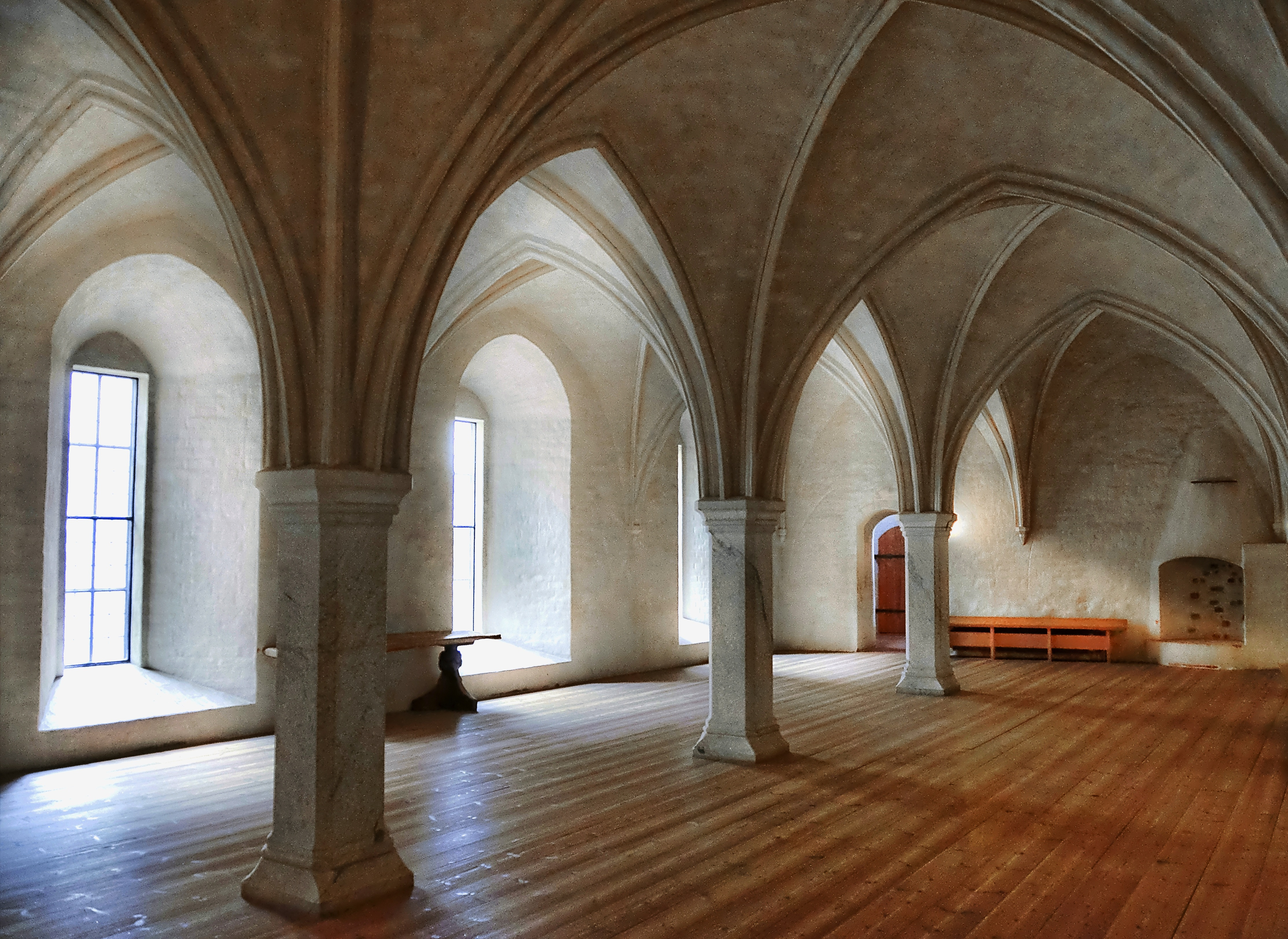 The Kings Hall in Turku Castle